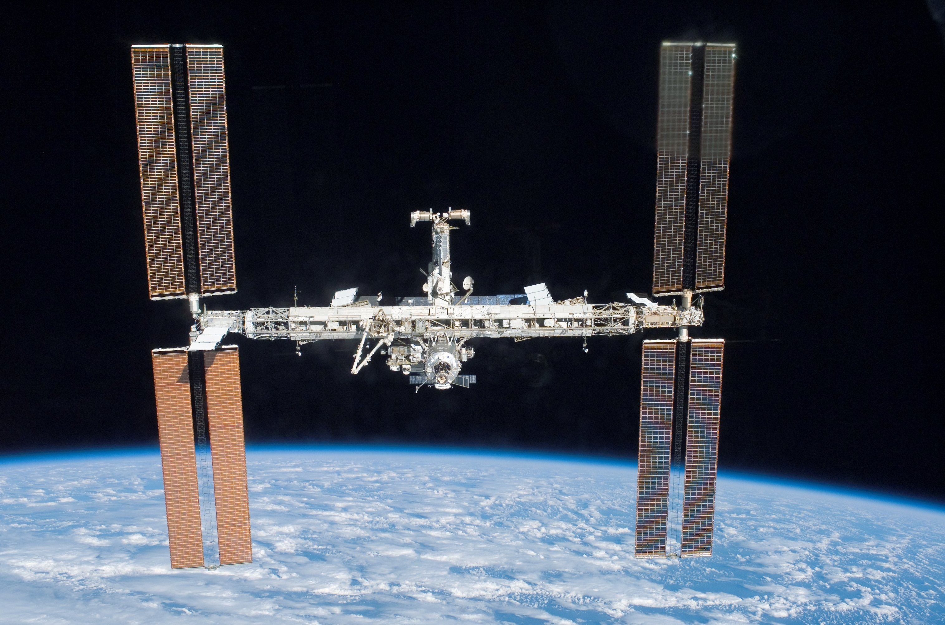 Backdropped by the blackness of space and Earth's horizon, the International Space Station moves away from the Space Shuttle Atlantis. Earlier the STS-117 and Expedition 15 crews concluded about eight days of cooperative work onboard the shuttle and station. Undocking of the two spacecraft occurred at 9:42 a.m. (CDT) on June 19, 2007. Astronaut Lee Archambault, STS-117 pilot, was at the controls for the departure and fly-around, which gave Atlantis' crew a look at the station's new expanded configuration.